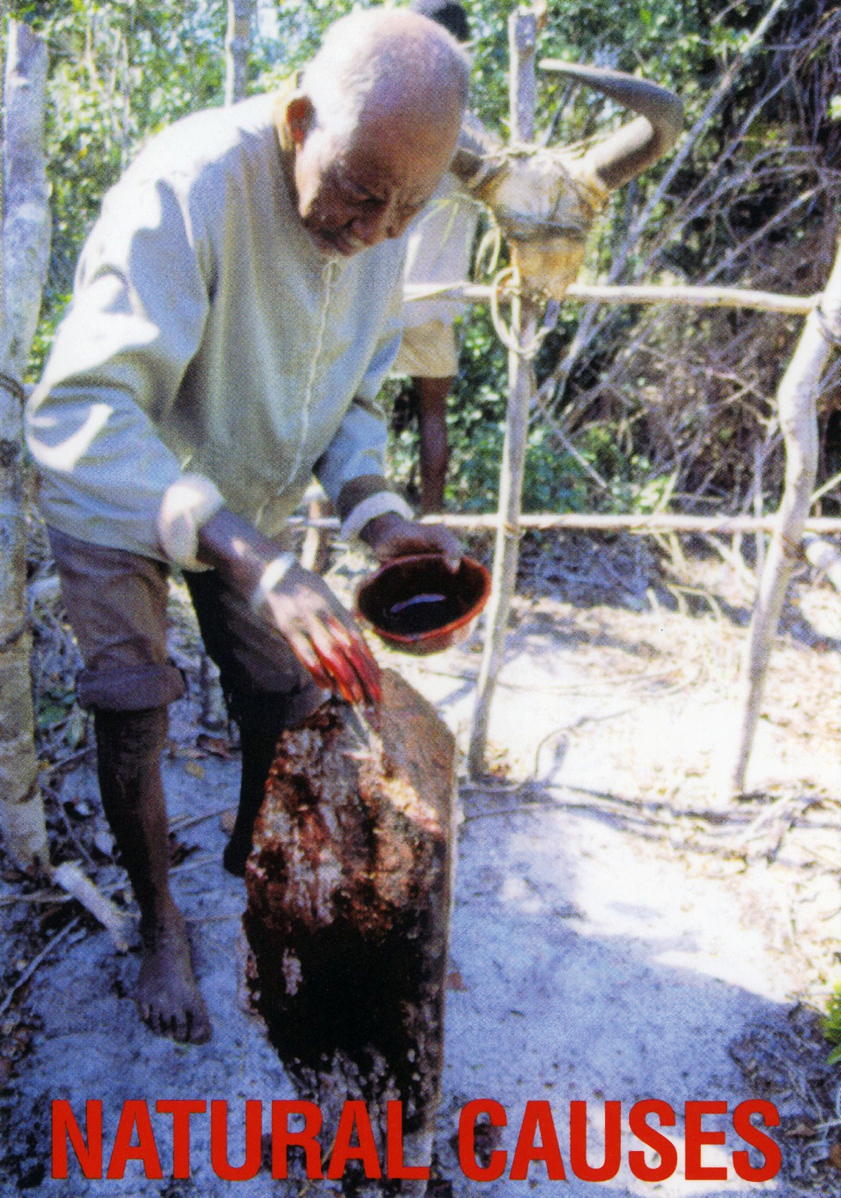 Publicity material for the Channel 4 documentary Natural Causes, made by Jonathan Kaplan for Open Media and first broadcast in 1996